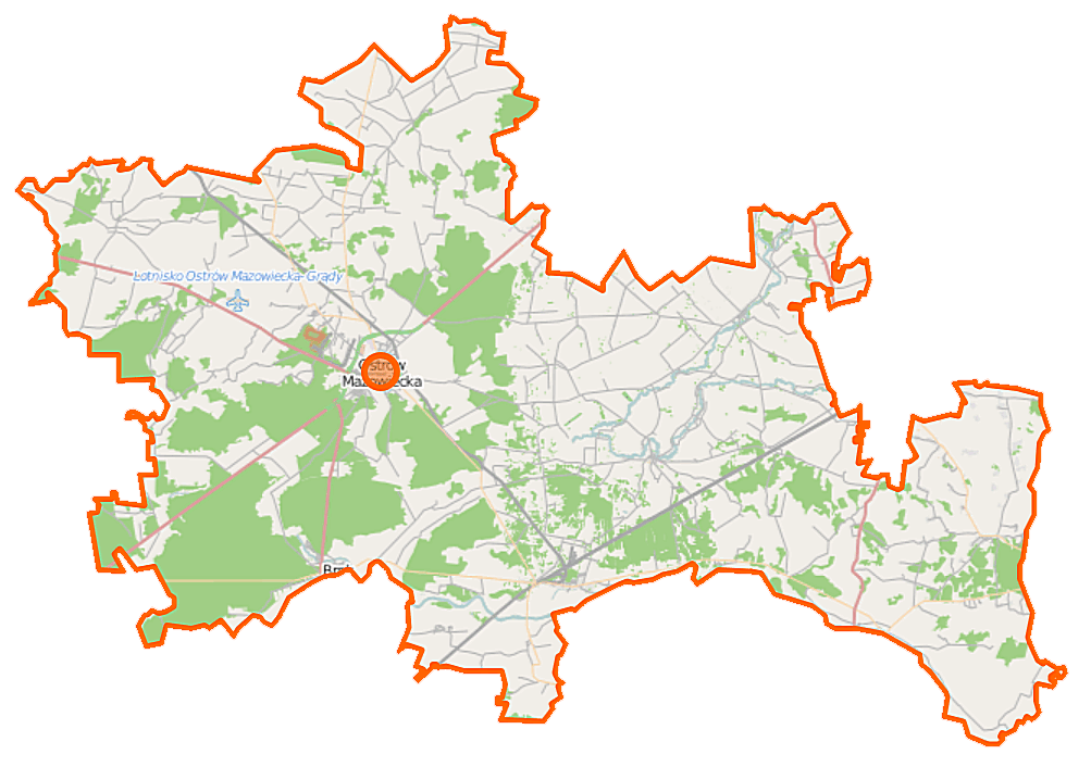 Map of Powiat ostrowskiego, Poland This map of Powiat ostrowski (województwo mazowieckie) was created from OpenStreetMap project data, collected by the community. This map may be incomplete, and may contain errors. Don't rely solely on it for navigation. Border coordinates52.989221.5758←↕→22.494552.5980